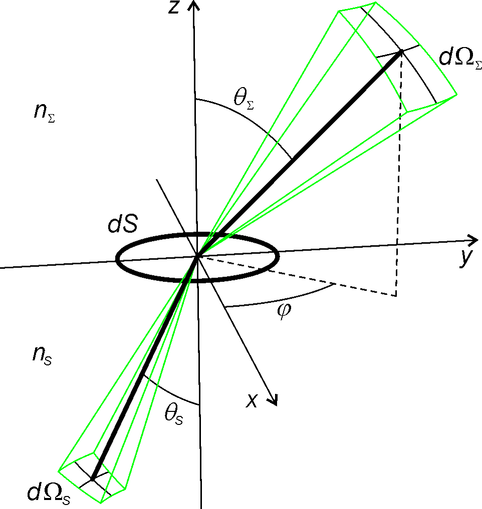 A diagram illustrating etendue conservation in the refraction of light.